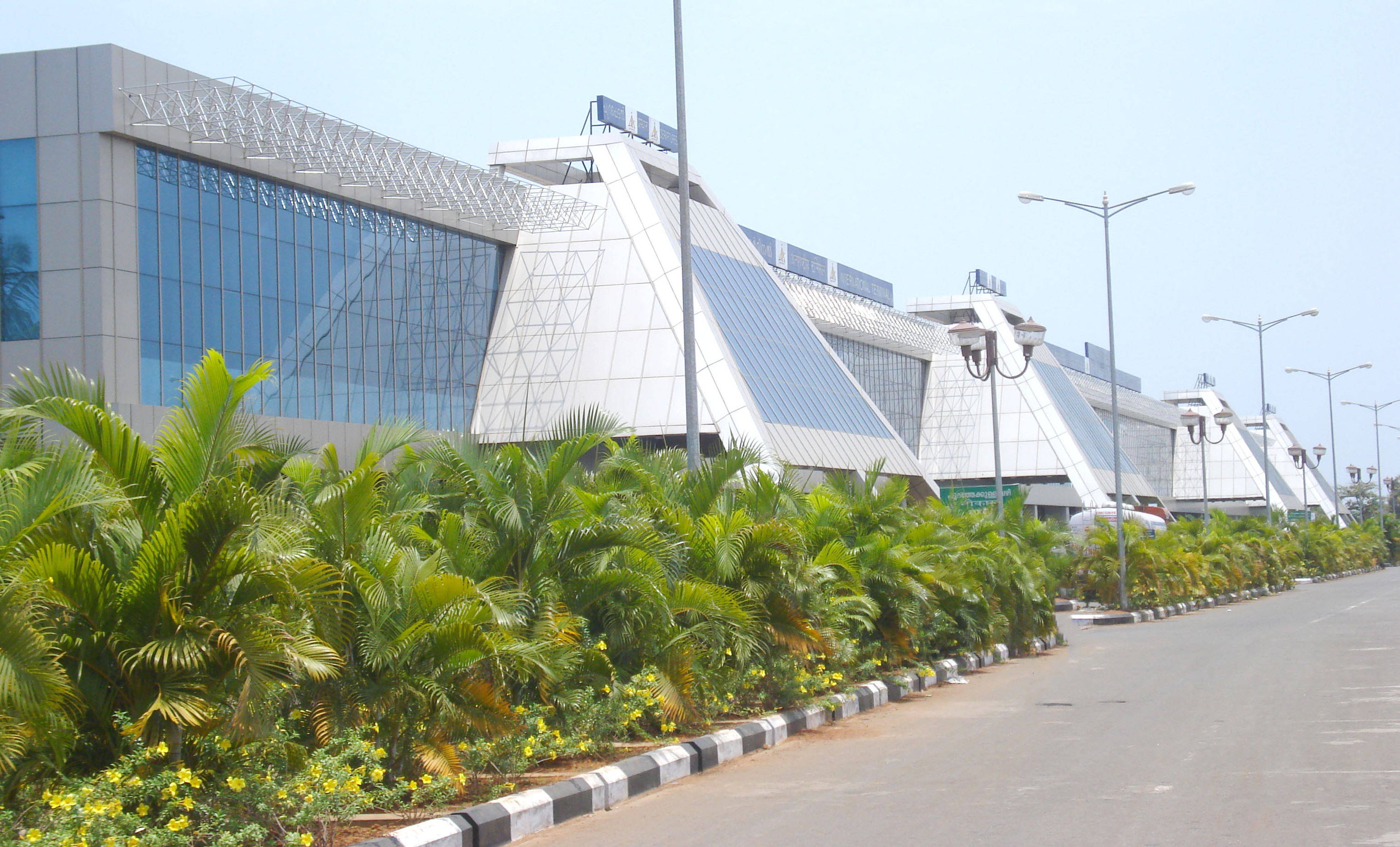 Calicut International Airport, which serves the cities of Malappuram and Kozhikode in Kerala, India.